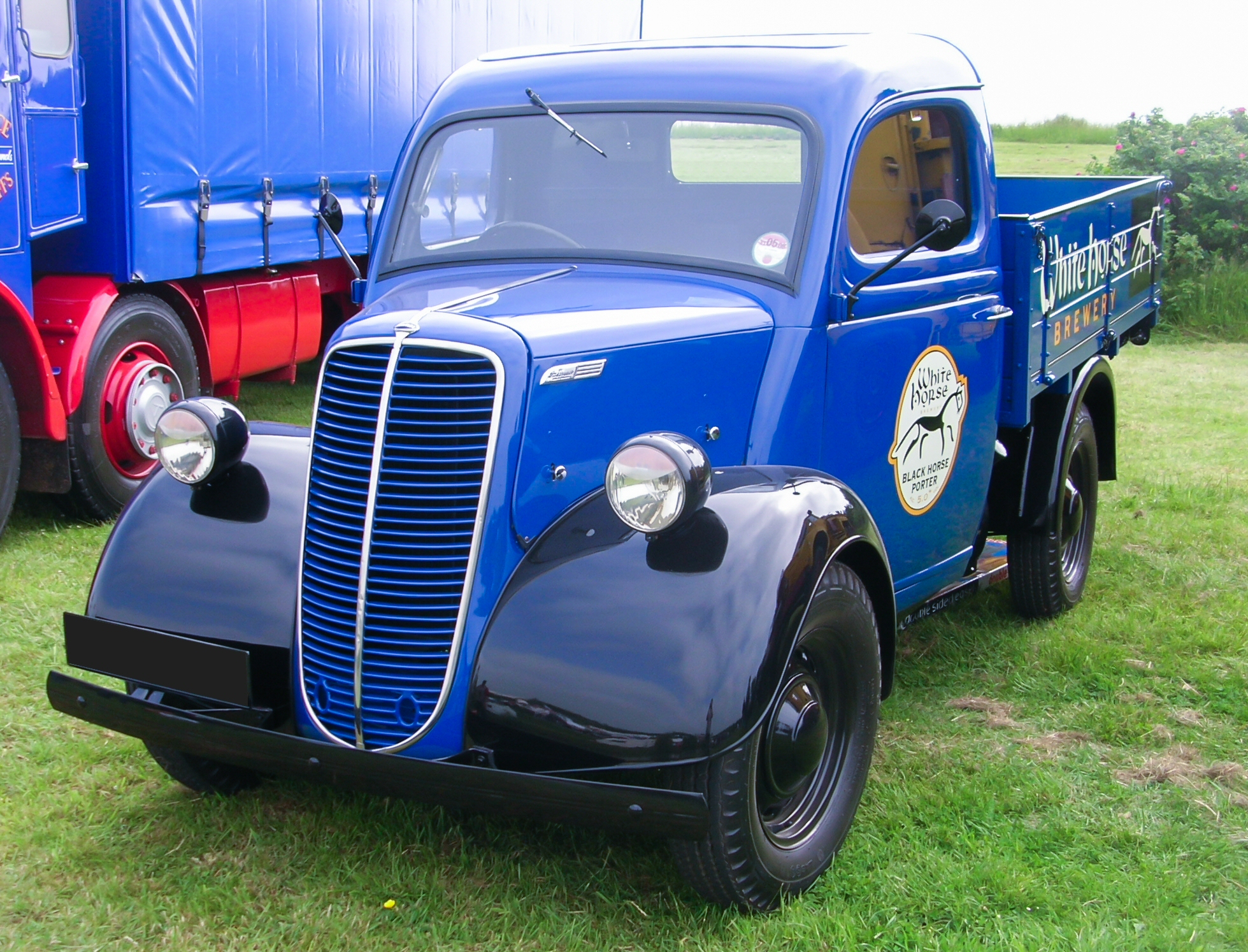 A 1957 Ford Thames E83W dropside. This vehicle was photographed attending the 2007 Classic Commercial Motor Show at the Heritage Motor Centre, Gaydon, UK.